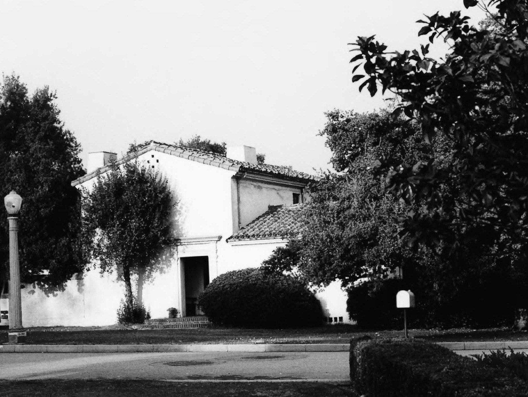 Edwin Powell Hubble House — in San Marino, Los Angeles County, California. Former residence of the astromomer Edwin Hubble. 1975 photo (cropped).